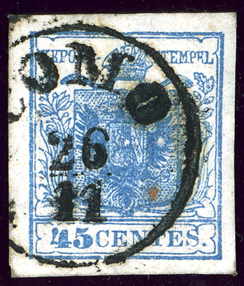 Austrian KK stamp in Lombardy province, 45 centes issue 1850, Handpaper type I, cancelled at COMO.